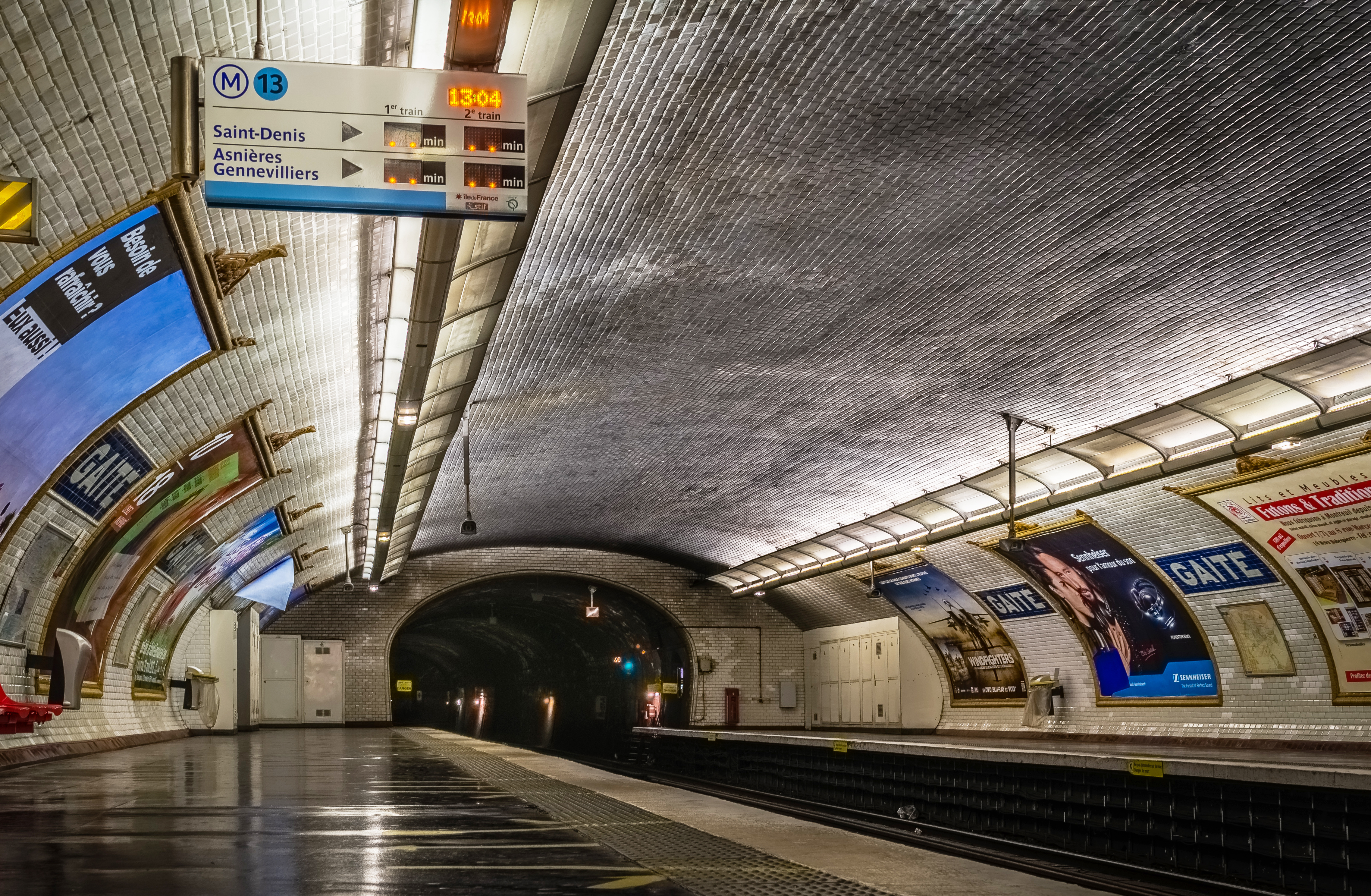 Gaite subway station, Paris.